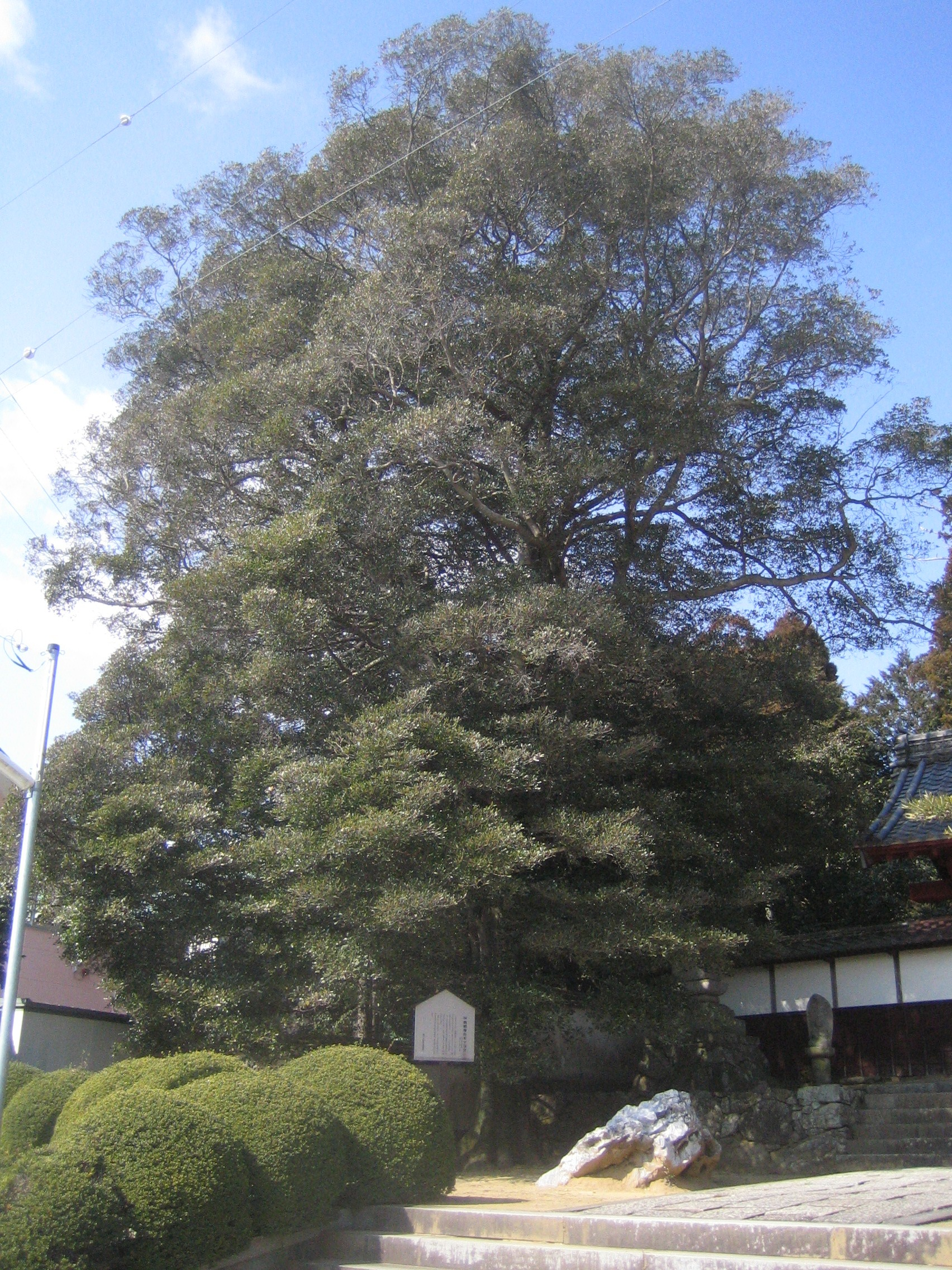 Ternstroemia gymnanthera of Saimyoji (西明寺), located at 7 Teramachi, Yawatacho, Toyokawa, Aichi, Japan